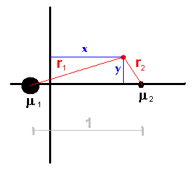 Co-rotating co-ordinates in 3-body system